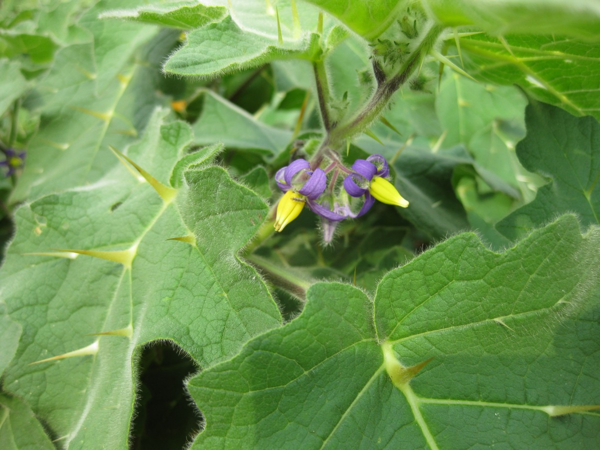 Photographed at the Queen Sirikit Botanic Garden (Chiang Mai Province, Thailand) in March